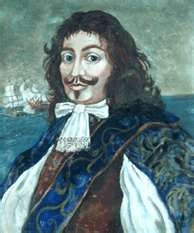 Drawing of Captain Henry Morgan